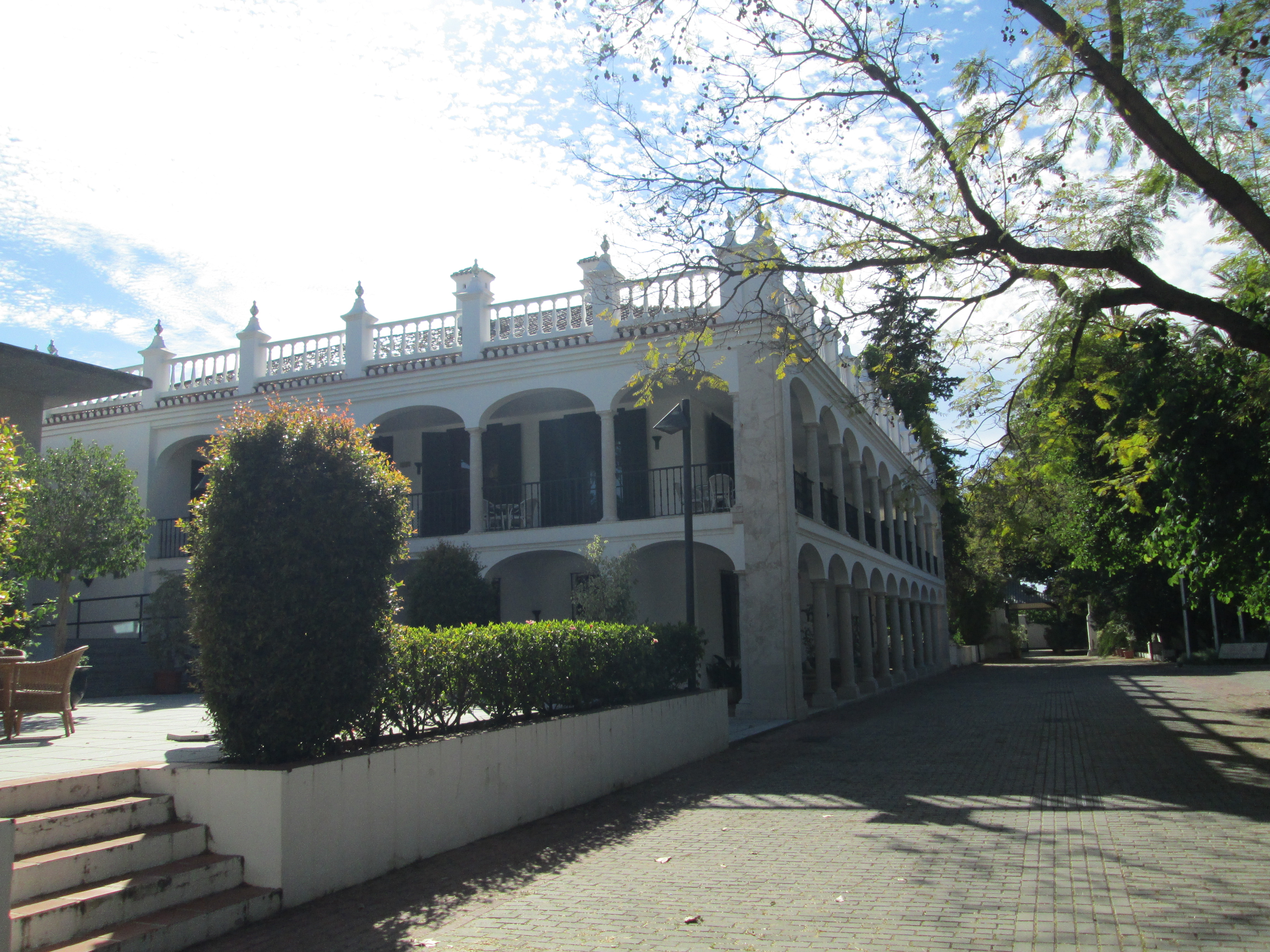 Palacete de la Cónsula